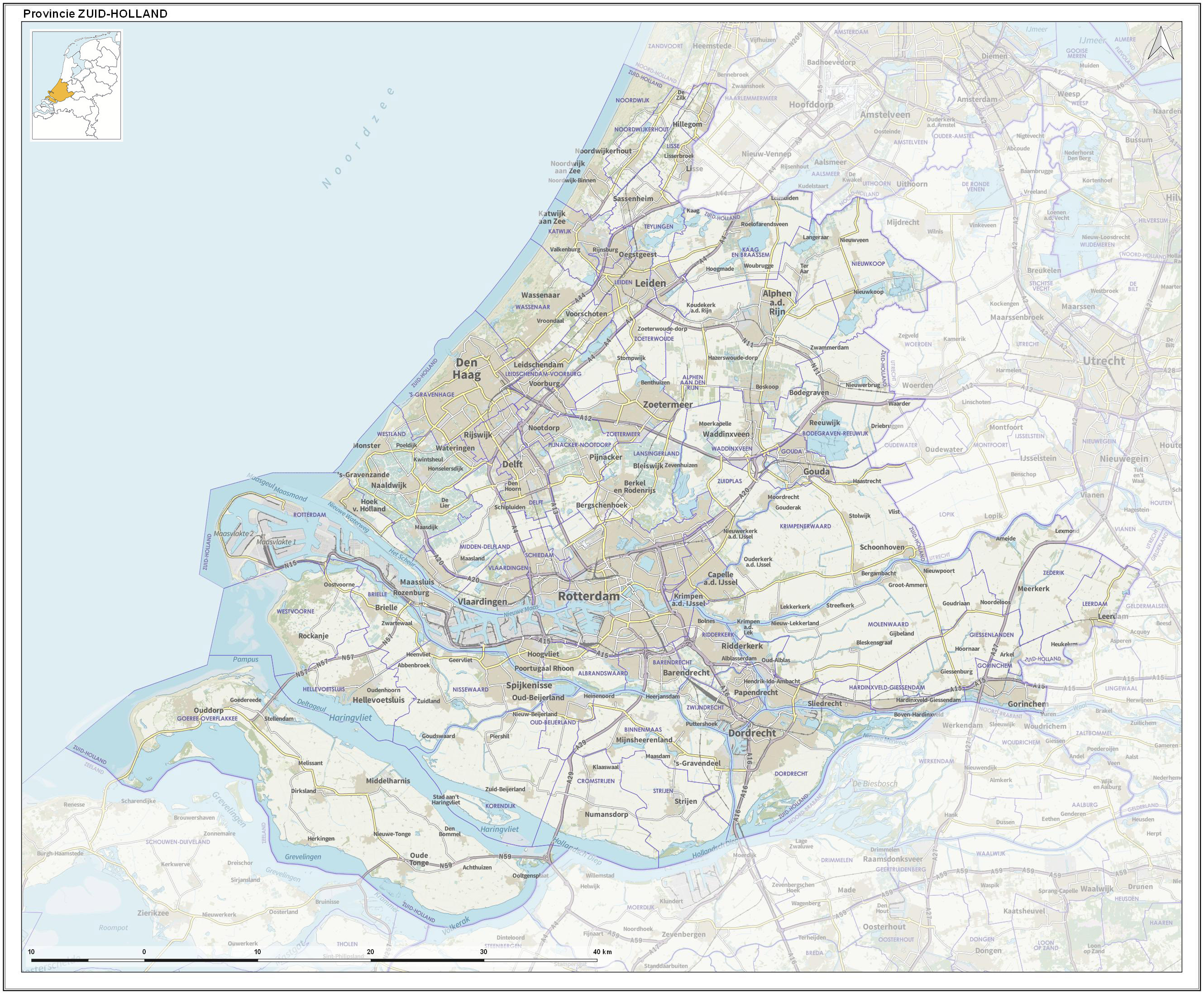 Toographic overview map of the Dutch Province of South Holland as of 2018. Compiled by Jan-Willem van Aalst using Dutch Governmental open data (CC-BY Kadaster) and OpenStreetMap data (CC-BY OpenStreetMap contributors).